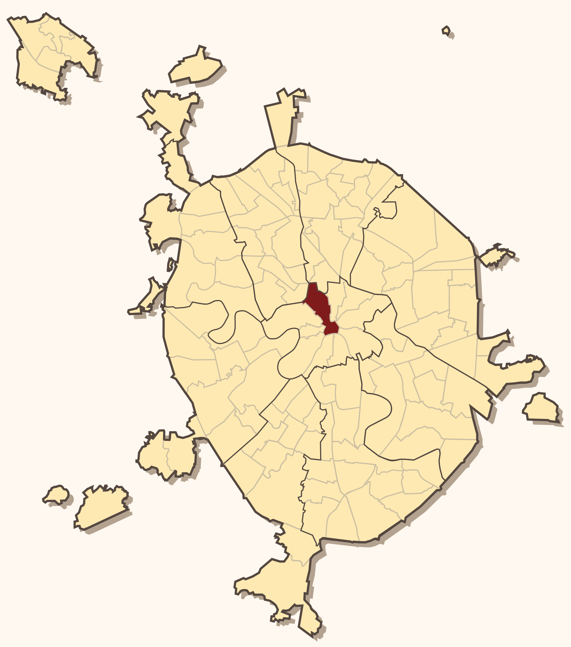 Moscow districts map